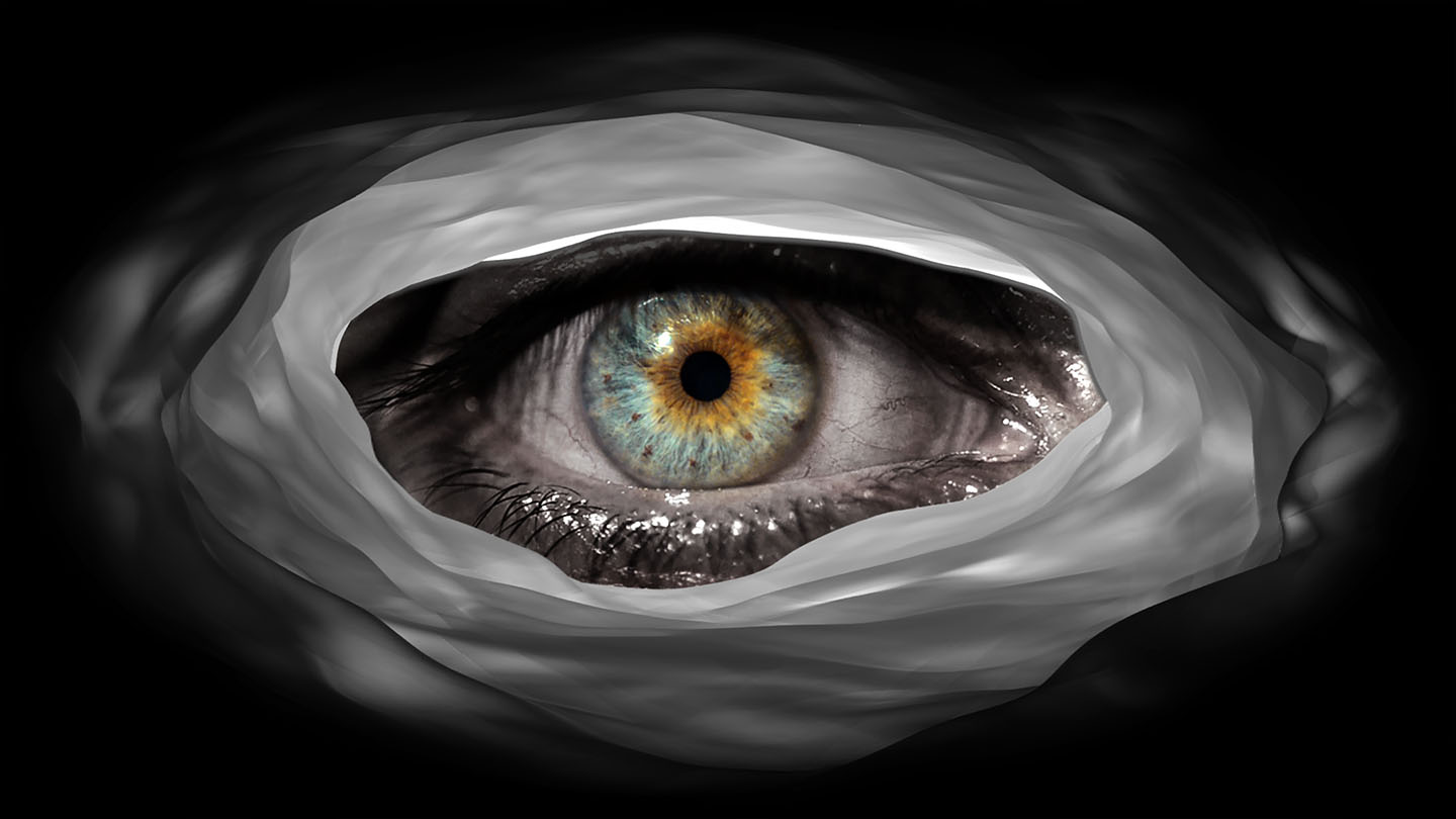 Frame from "The fire of vision (Jesús)", 2015, single-channel video, Marina Núñez